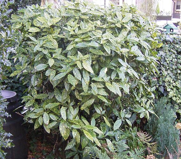 Aucuba Japonica 'Variëgata' bush- the series 'our garden'